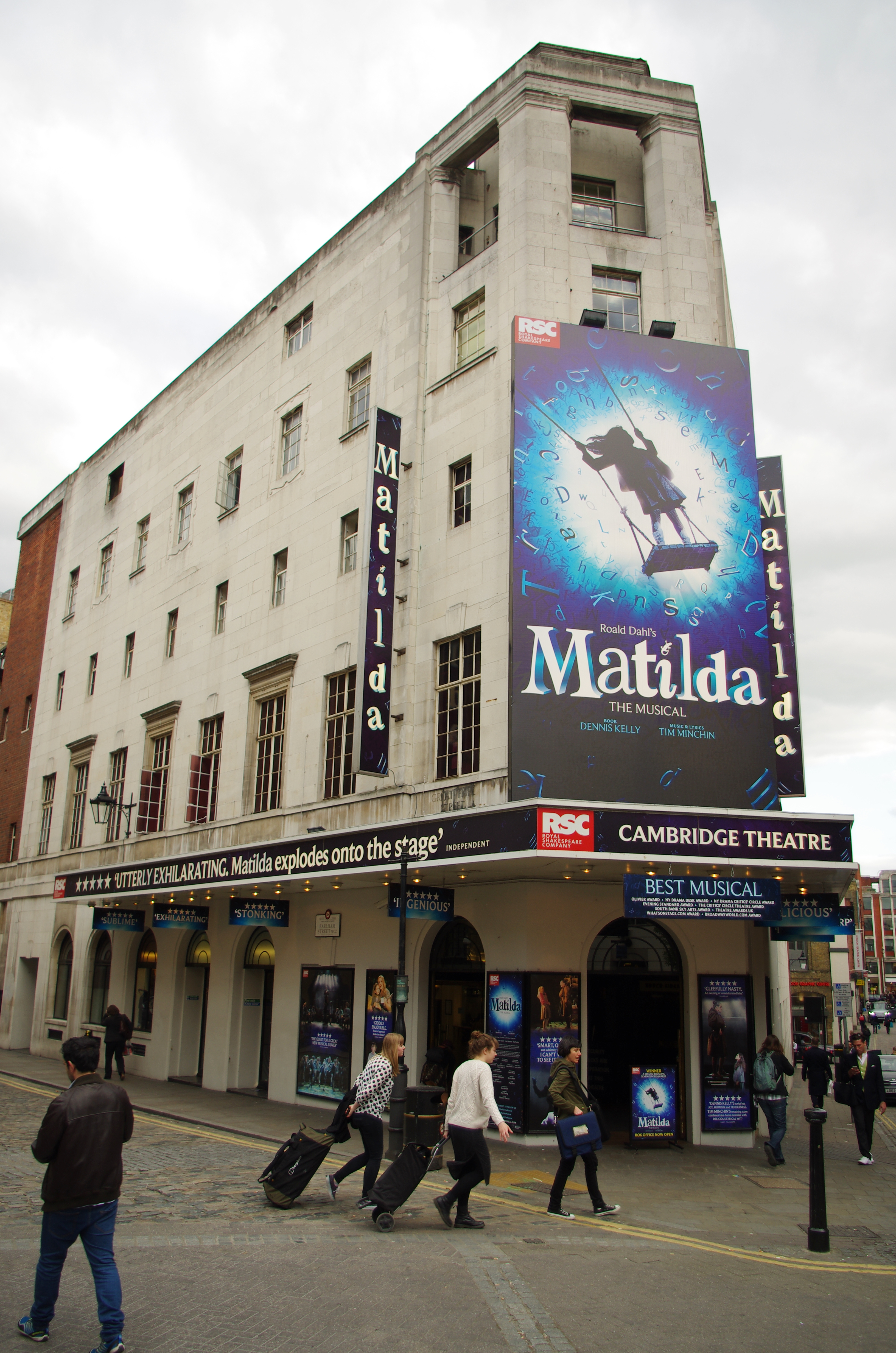 Cambridge Theatre in London in 2014, playing Matilda the musical